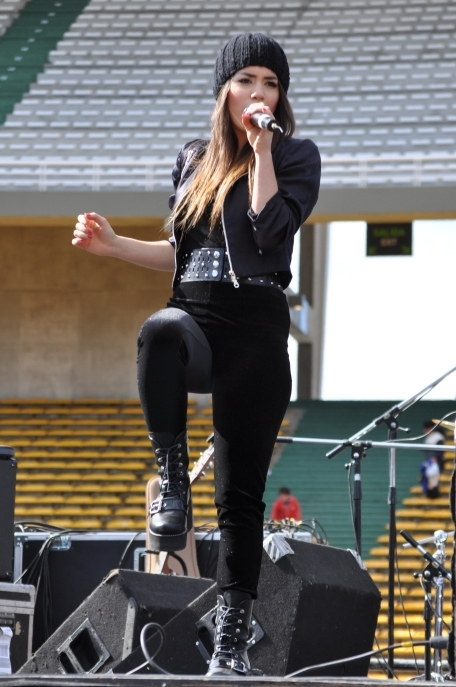 Mariana Espósito from Teen Angels at a concert in Cordoba, Argentina.